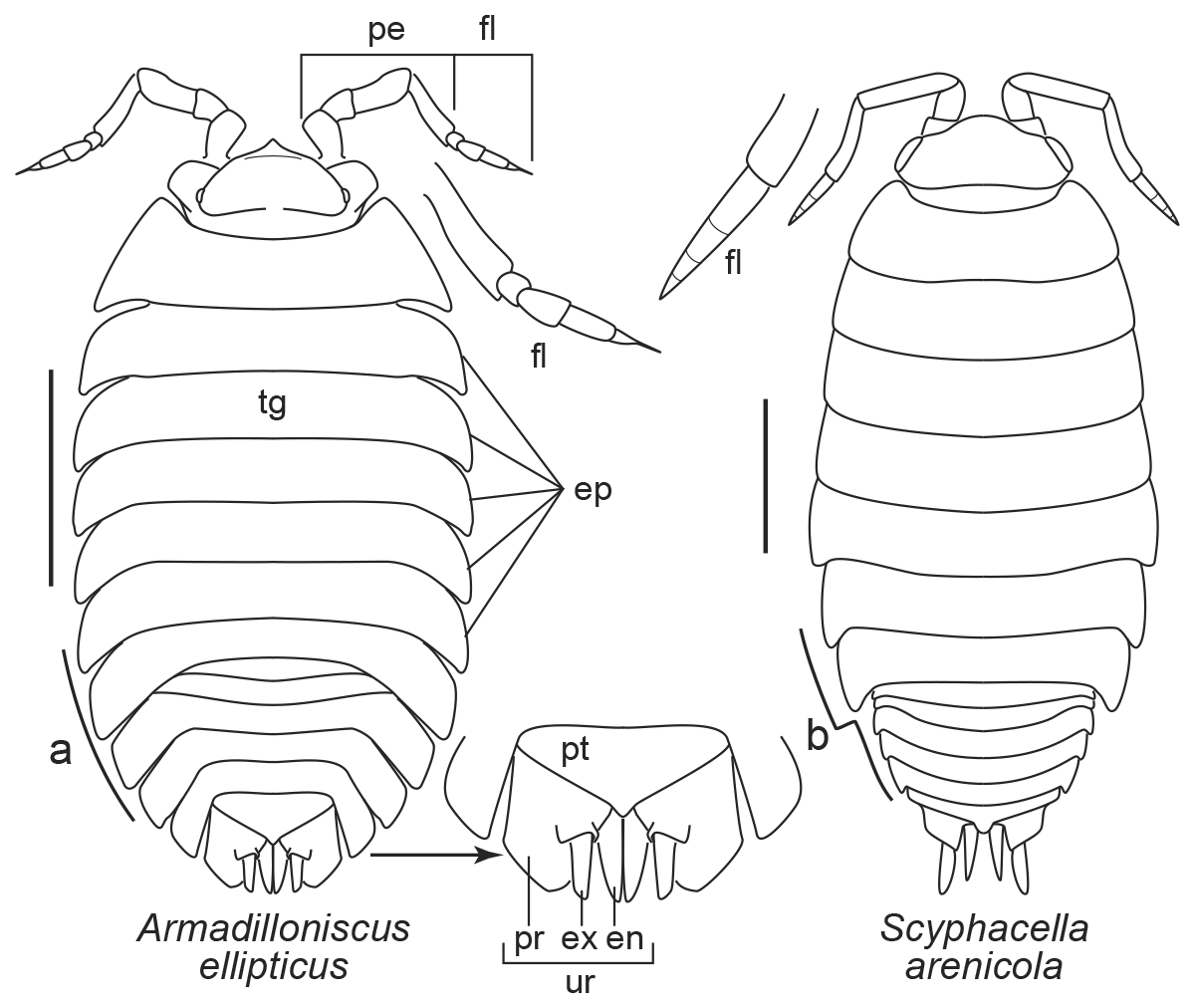 Armadilloniscus ellipticus, insets highlight uropods and antennal flagellum. Scyphacella arenicola, inset highlights antennal flagellum.Abbreviations:a lateral perimeter narrows gradually from pereon to pleonb lateral perimeter narrows abruptly from pereon to pleonen endopoditeep epimeraex exopoditefl flagellumtg tergitepe peduncle of antenna IIpr protopoditept pleotelsonur uropod.Scale bars: 1 mm.